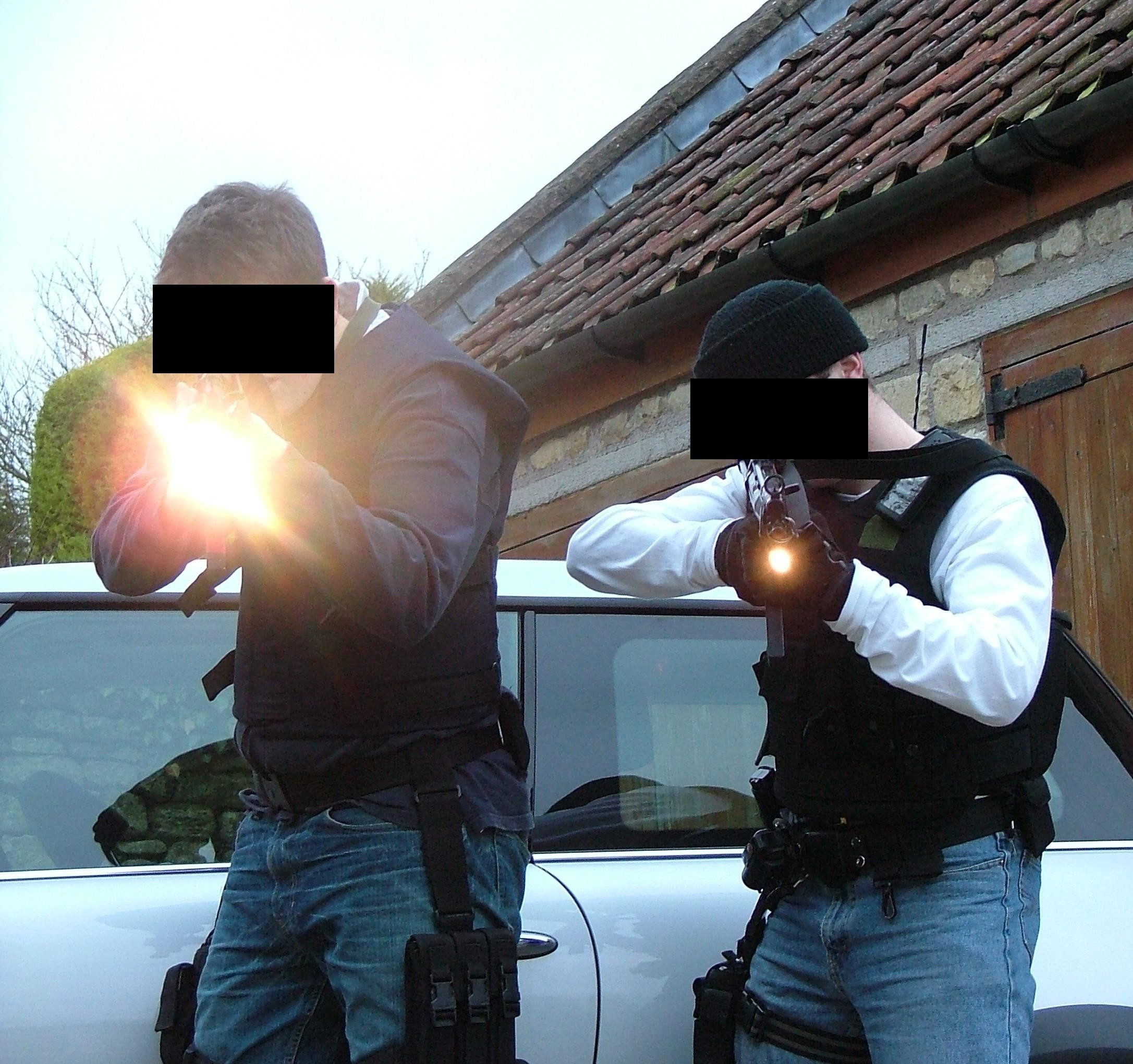 Two males with airsofts.